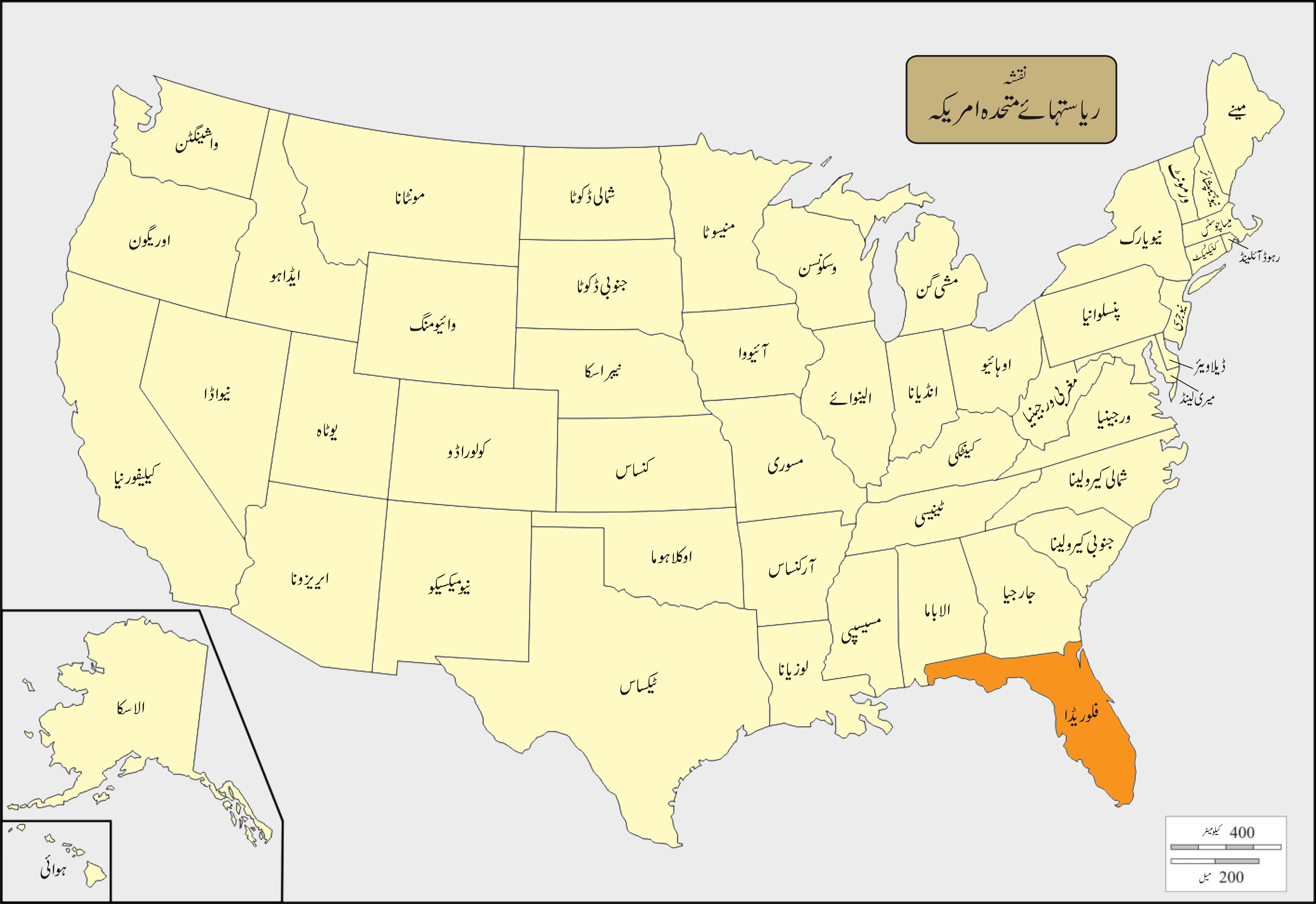 USA Names Florida